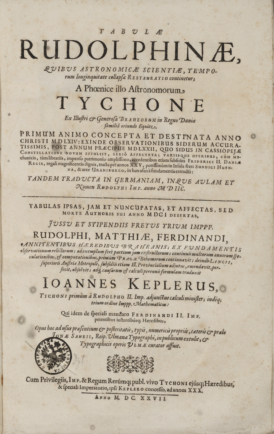 Tabulae Rudolphinae, quibus astronomicae scientiae, temporum longuinquitate collapsae Restauratio continetur; A Phoenice illo Astronomorum Tycho Ex Illustri & Generosa Braheorum in Regni Daniae familiâ oriundo Equite,..., Jona Saurius (= Saur, Johann, Sauer, Johannes; Saurius, Johannes), Ulm 1627. The title page of Johannes Kepler's Rudolphine Tables (1627), the most accurate and comprehensive star catalogue and planetary tables published up until that time. It contained the positions of over 1000 stars and directions for locating the planets within our solar system. Kepler finished the work in 1623 and dedicated it to his patron, the Emperor Rudolf II, but actually published it in 1627. It is the first scientific work which extensively employs the new concept of logarithms. The table's findings support Kepler's laws and the theory of a heliocentric astronomy.